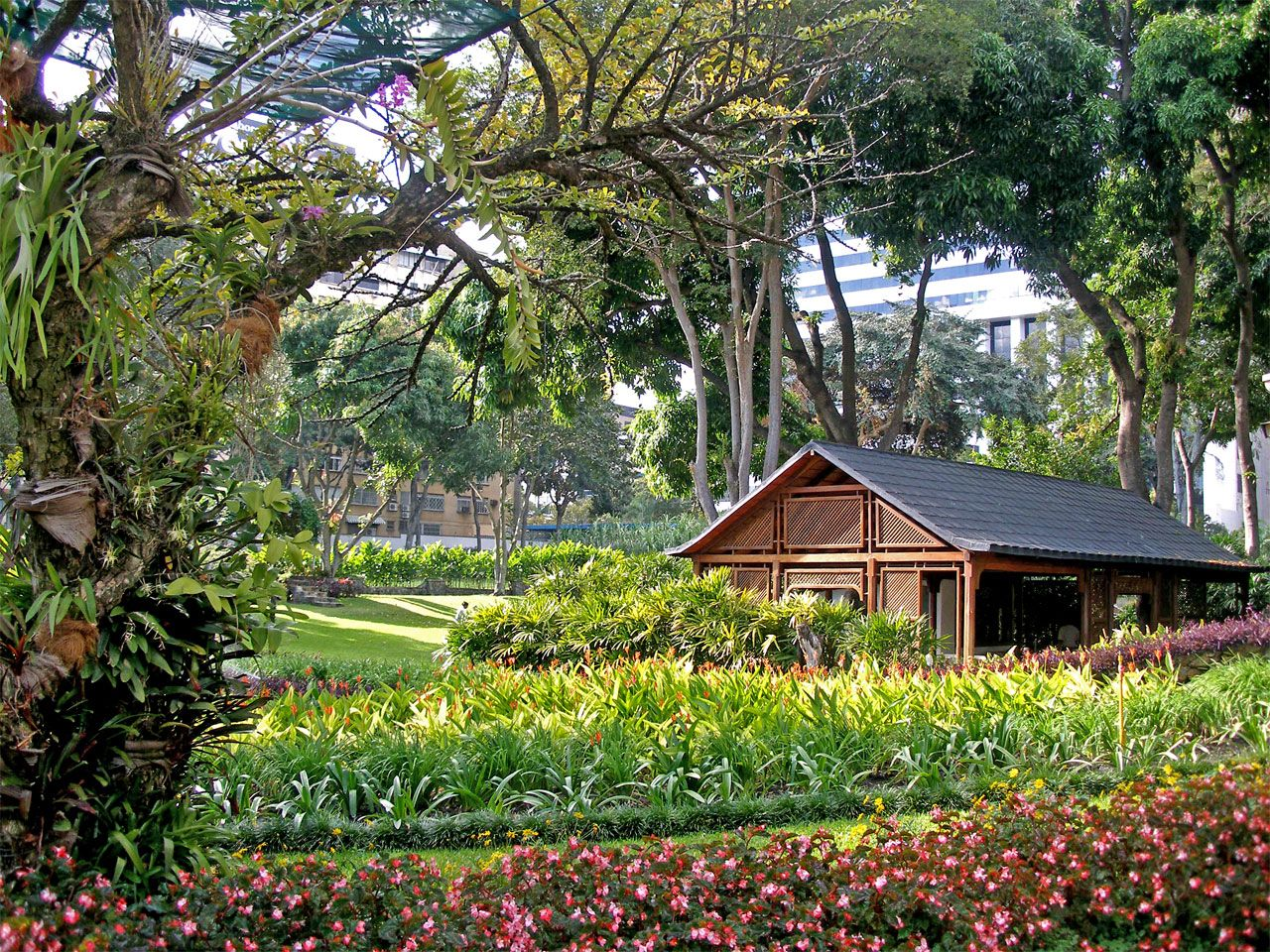 This photo was taken in "La Estancia" Art Center